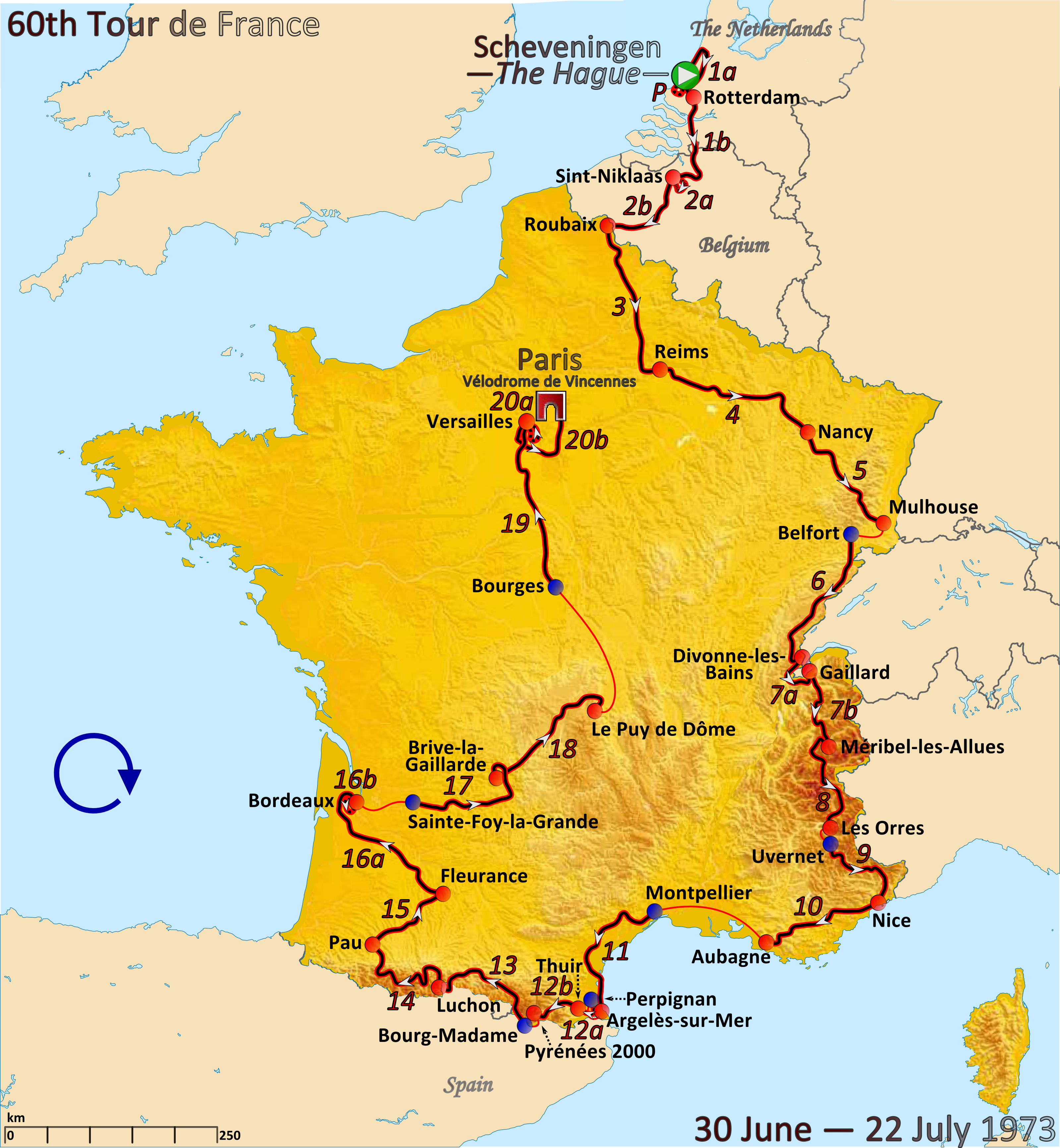 Map of the 1973 Tour de France created in Inkscape using accurate stage maps obtained from touratlas.nl.